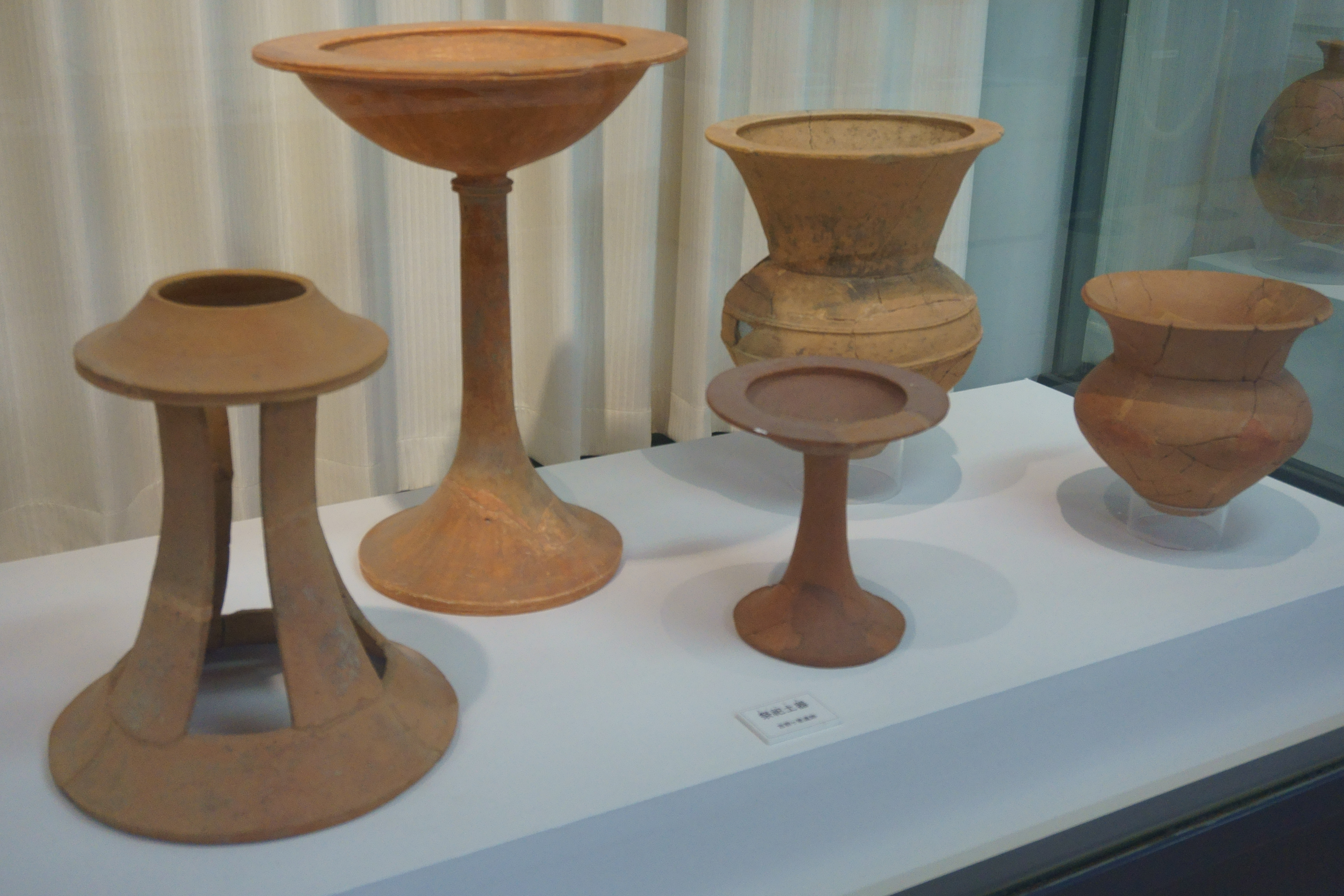 Various ritual Yayoi potteries from Yoshinogari Site. Display:Exhibition room of Yoshinogari Site.